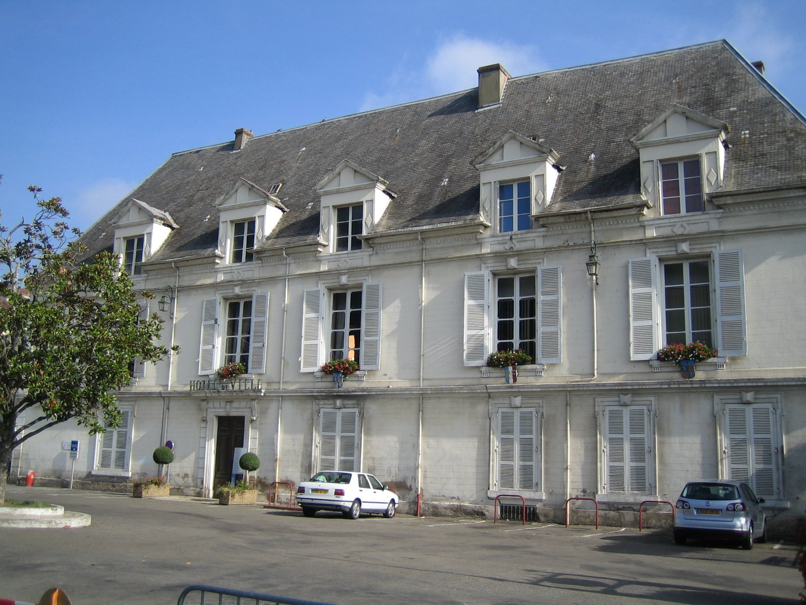 Town hall of Aire-sur-l'Adour (France). Photo taken by me (Thbz) in Aug. 2005.